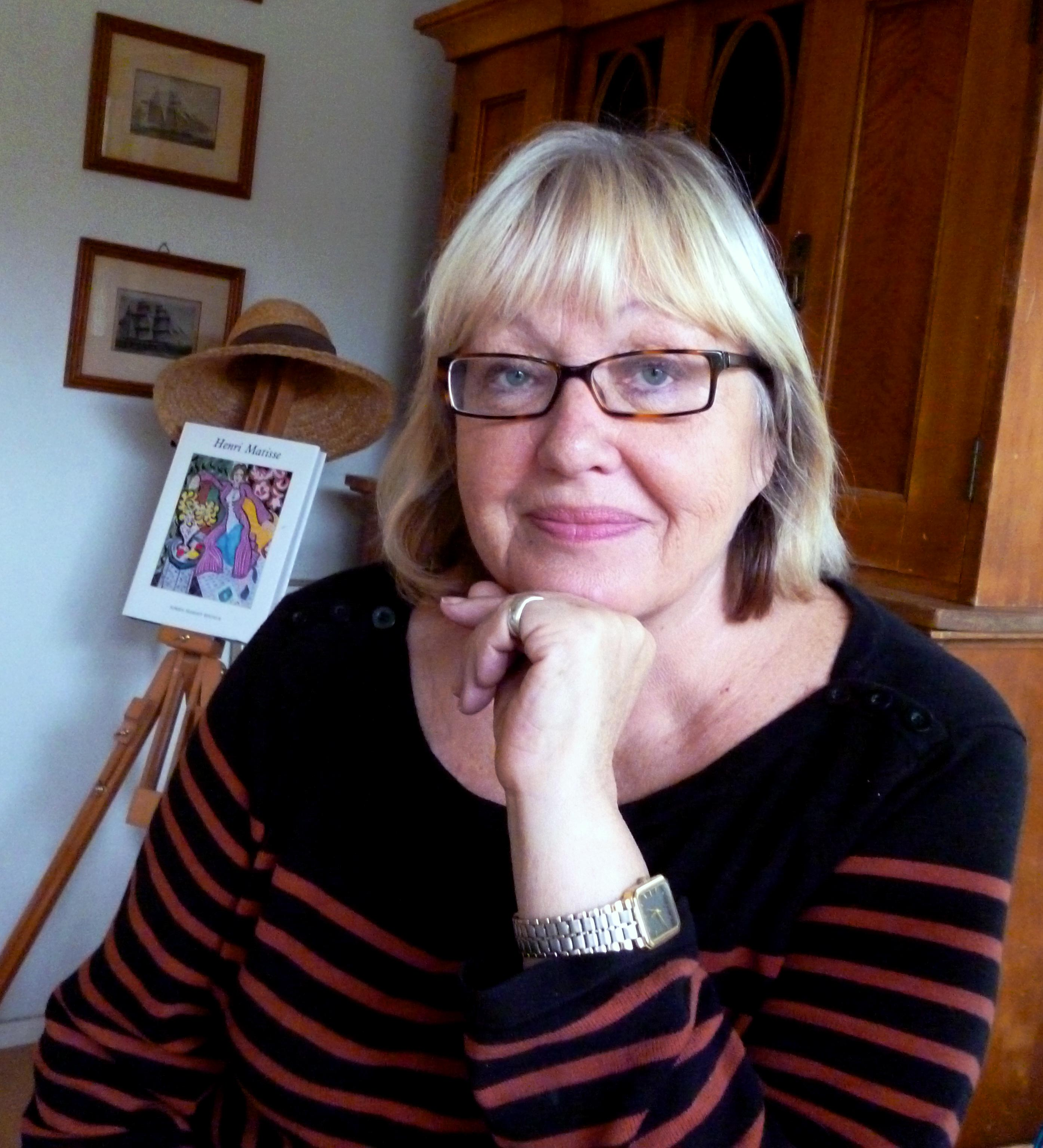 Photo of Sinikka Siekkinen